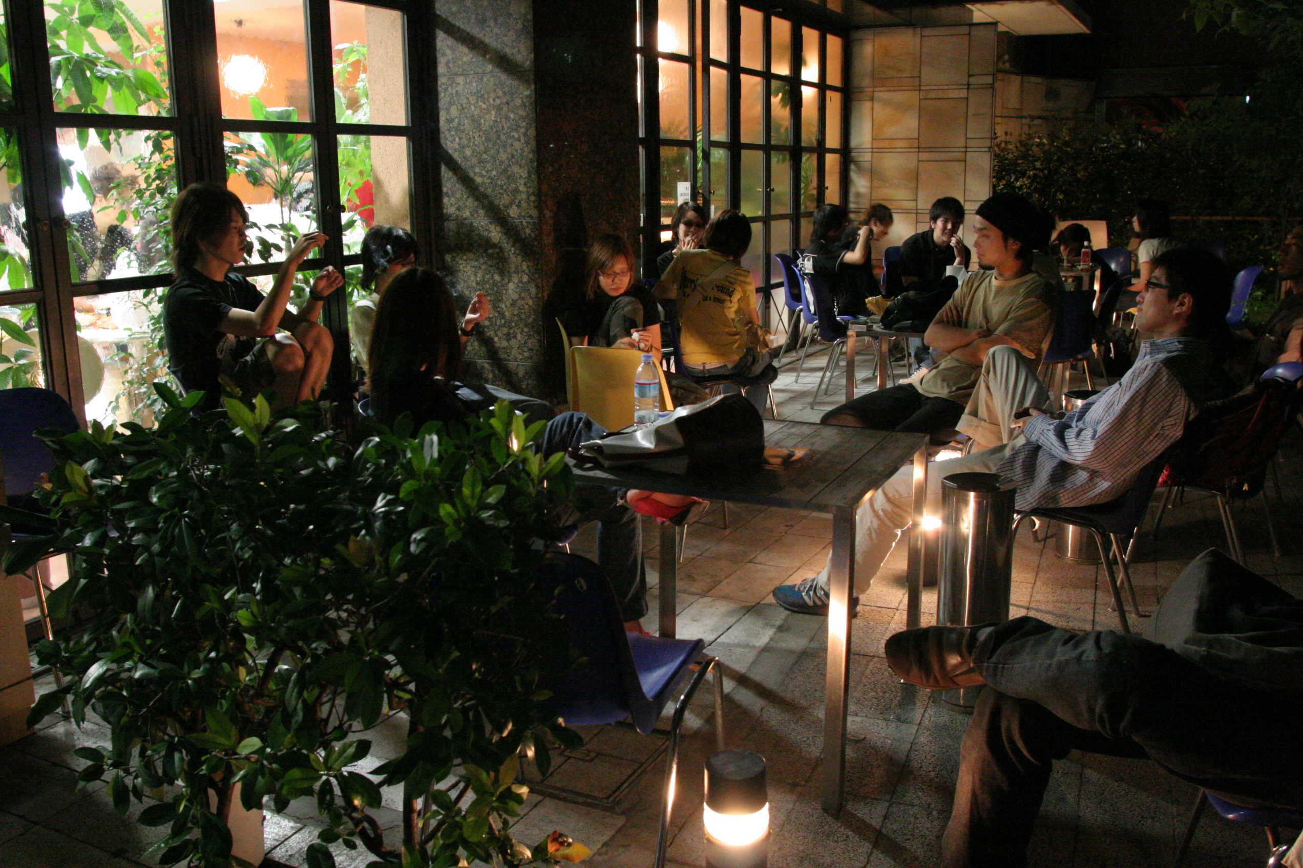 open cafe